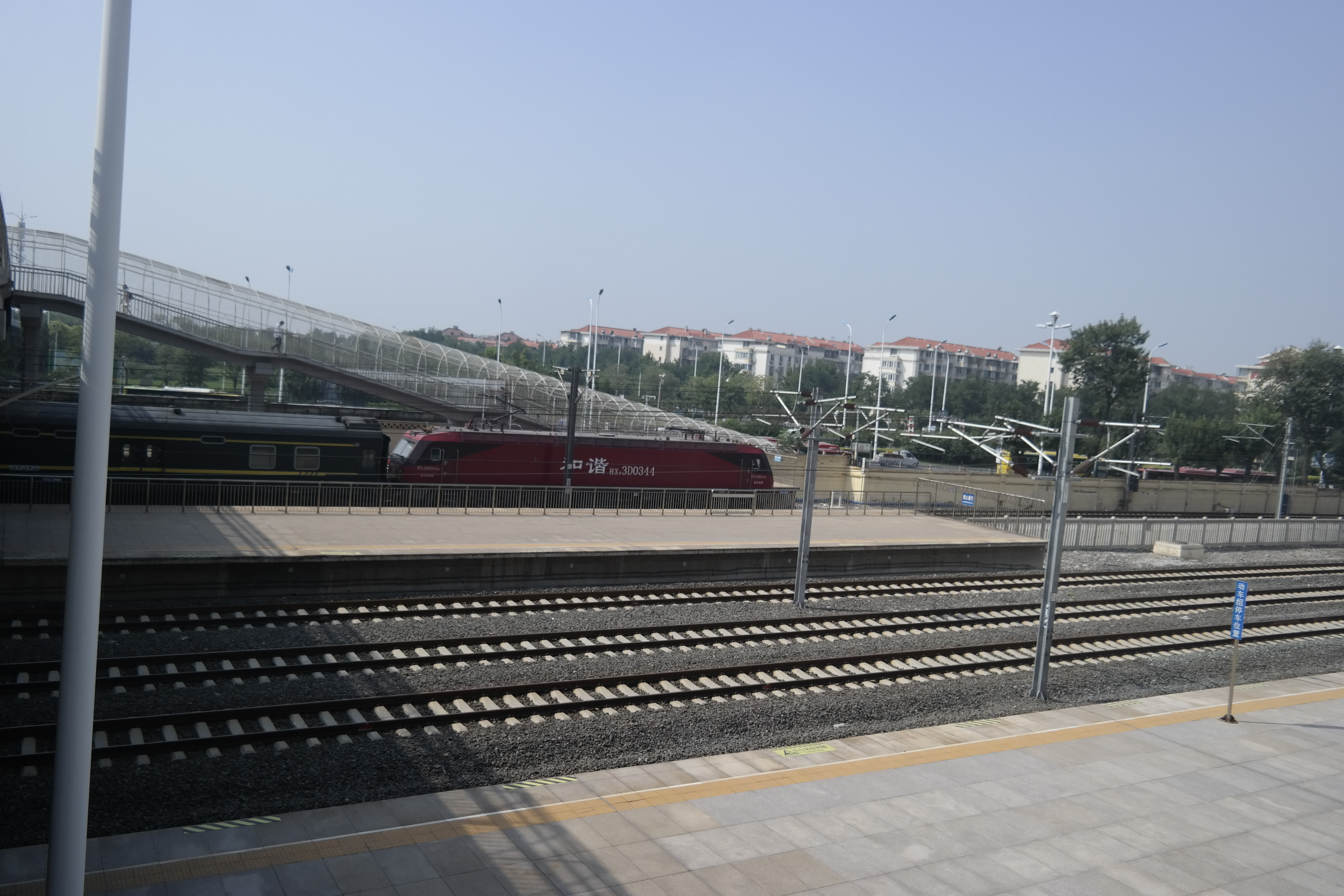 Tanggu Railway Station